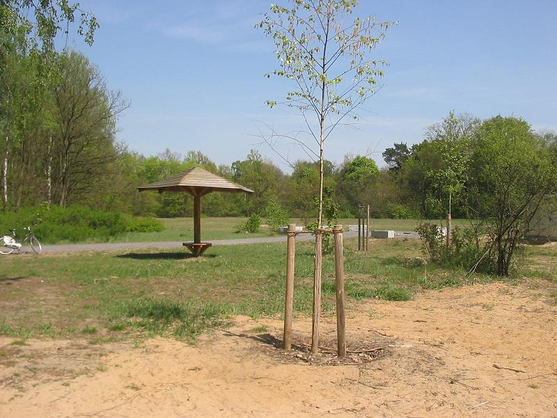 The Murellenberge, the Murellenschlucht and the Schanzenwald (german for: Murellenhill, Murellenravine, Sconceforest) are a hill-landscape from the last gacial period in Berlin-Ruhleben in the district Charlottenburg-Wilmersdorf. Its part of the Teltow-Plateau at its northside in Berlin. In the hills there is the memorial Denkzeichen zur Erinnerung an die Ermordeten der NS-Militärjustiz am Murellenberg (german for: Thought-Signs to commemorate the victims of Nazi military justice at Murellenberg), created by the argentine, in Berlin living, artist Patricia Pisani in 2002.